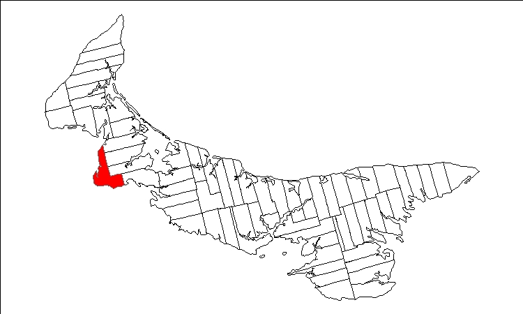 Public domain map of Prince Edward Island created by User:Plasma east with data courtesy of Geogratis, modified to show townships. Released under GFDL (self).